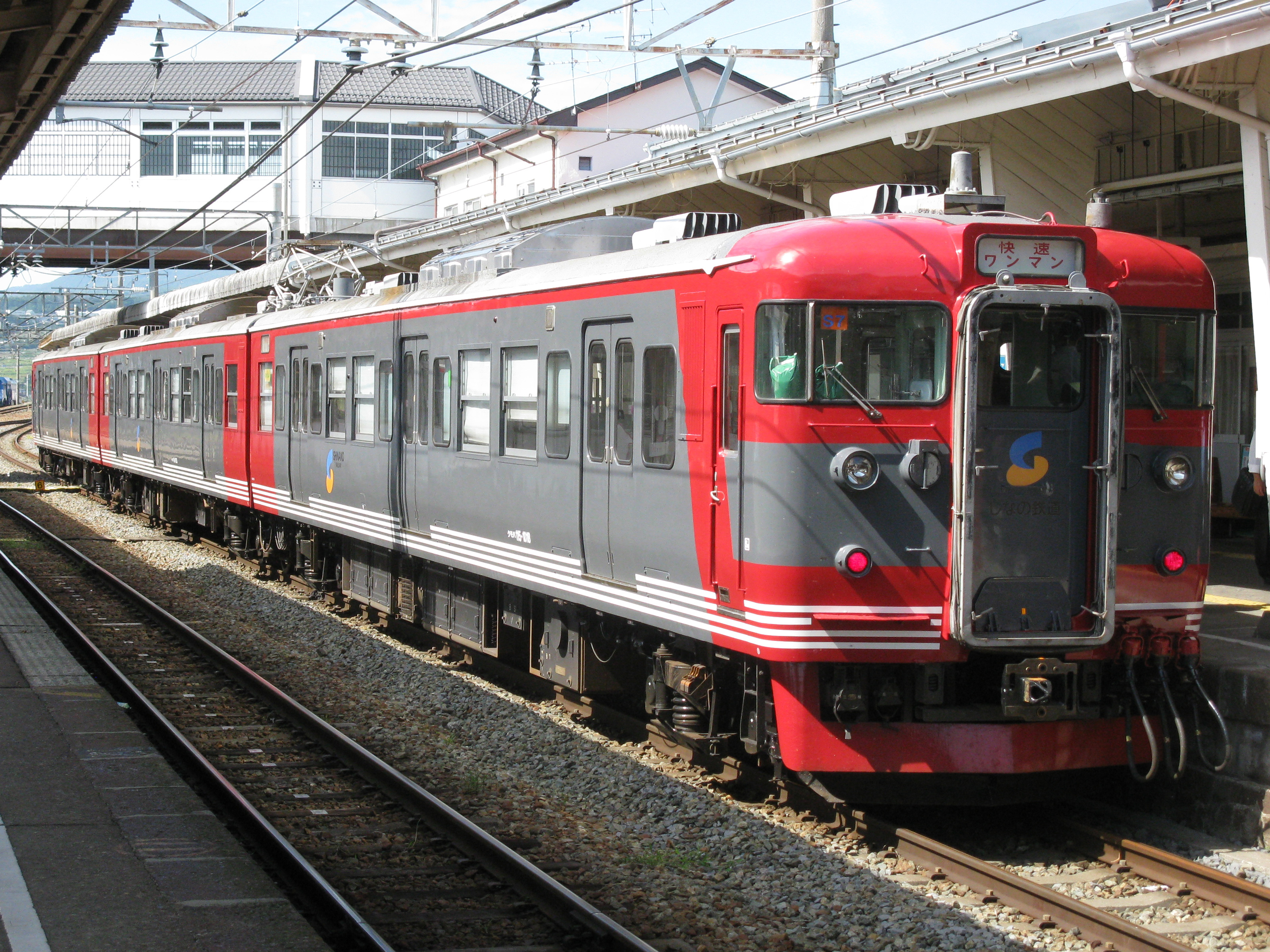 Shinano Railway 115 series S7 unit